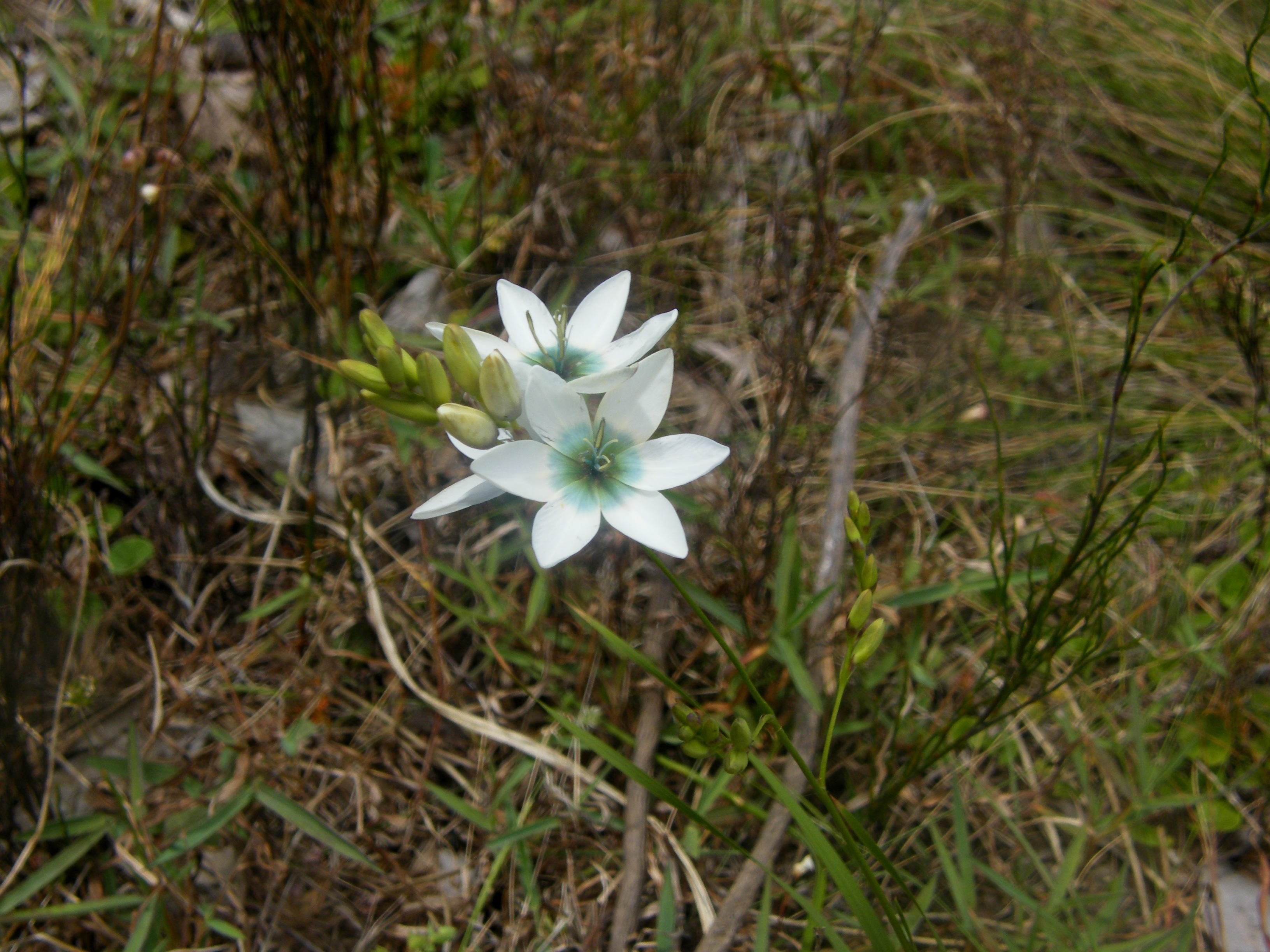 Ixia